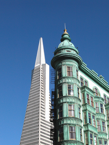 This is the Sentinel building in San Francisco, with the TransAmerica building in the background. I liked the contrast between the two. The Sentinel Building was completed in 1907 (they were putting it up during the big quake), while the TransAmerica Building shot up 65 years later. The Sentinel Building is the home of American Zoetrope, Francis Ford Coppola's film company.zoetrope-transamerica